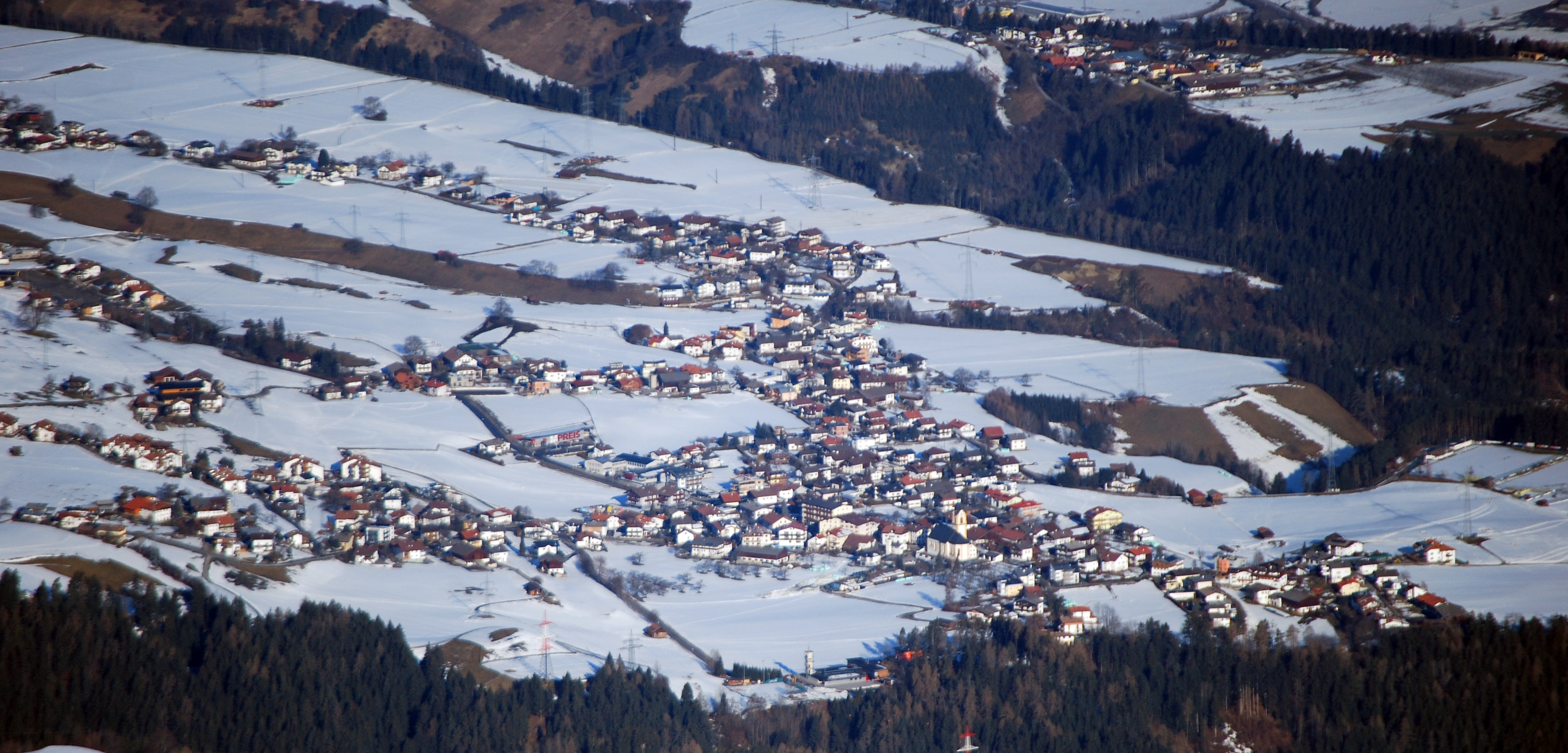 Oberperfuss from SE (Saile)